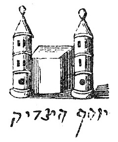 Joseph's Tomb, Nablus